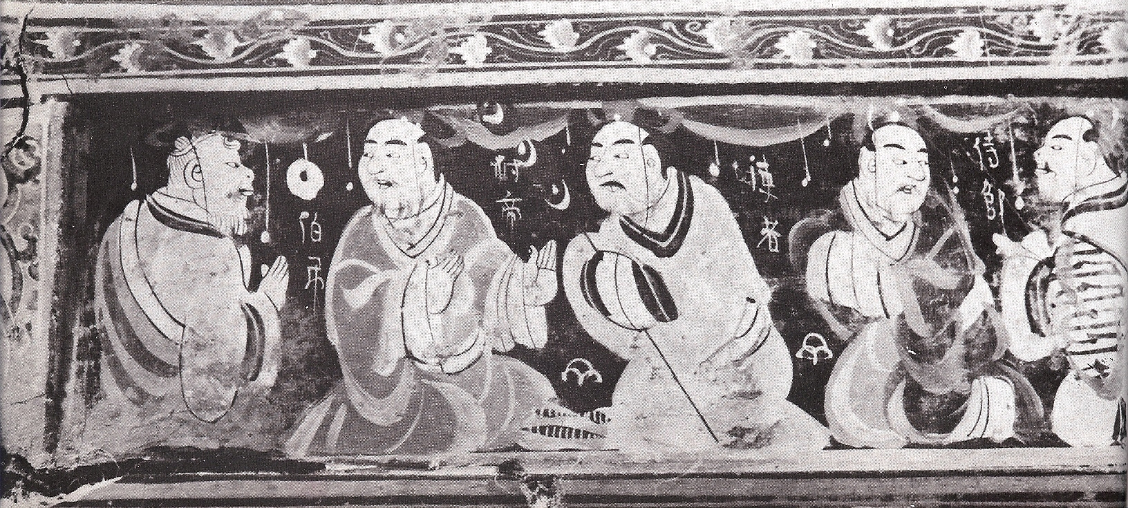 Paragons of filial piety, Chinese painted artwork on a lacquered basketwork box. It was excavated from an Eastern Han tomb of what was the Chinese Lelang Commandery in what is now North Korea. Each of the figures are about 5 cm tall. It is now located at the National Museum of Seoul. The photograph is black-and-white, so the various lacquer-based colors of paint do not show.